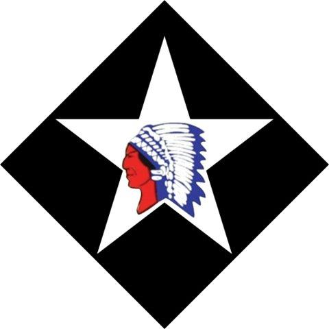 6th Marine Regiment Unit Logo